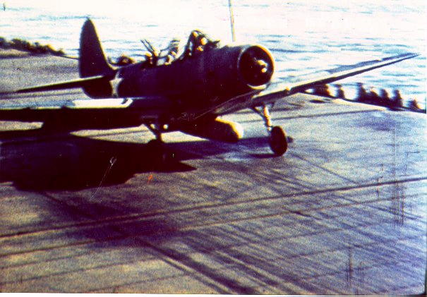 The last Douglas TBD-1 Devastator of U.S. torpedo squadron VT-8, T-16 (BuNo 1506), flown by LCDR John C. Waldron with Horace Franklin Dobbs, CRMP, in the rear seat, taking off from the aircraft carrier USS Hornet (CV-8) on 4 June 1942, during the Battle of Midway.